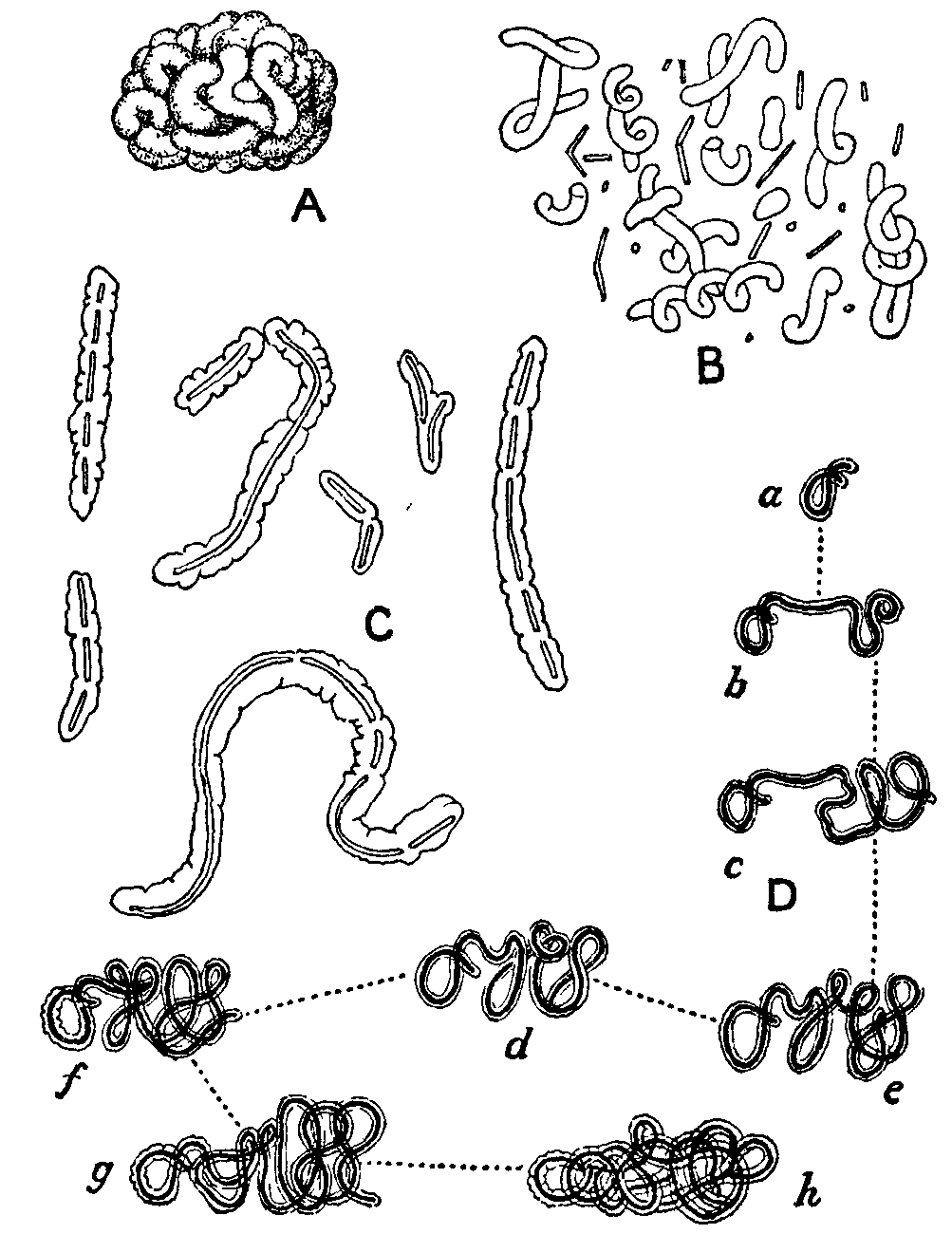 Illustration from 1911 Encyclopædia Britannica, article BACTERIOLOGY. Fig. 20.—The ginger-beer plant. A. One of the brain-like gelatinous masses into which the mature "plant" condenses. B. The bacterium with and without its gelatinous sheaths (cf. fig. 19). C. Typical filaments and rodlets in the slimy sheaths. D. Stages of growth of a sheathed filament—a at 9 A.M., b at 3 P.M., c at 9 P.M., d at 11 A.M. next day, e at 3 P.M., f at 9 P.M., g at 10.30 A.M. next day, h at 24 hours later. (H. M. W.)